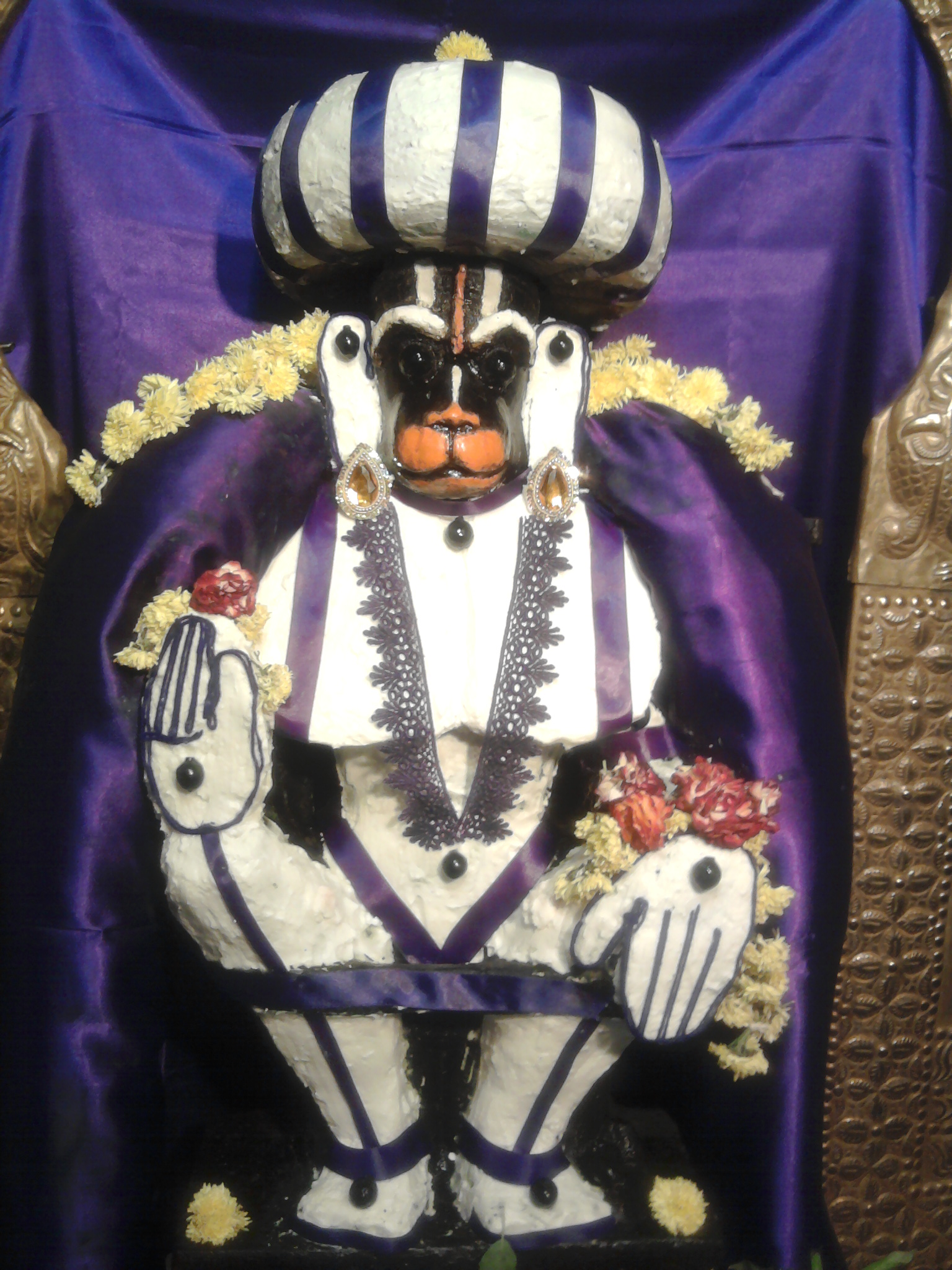 chromepet